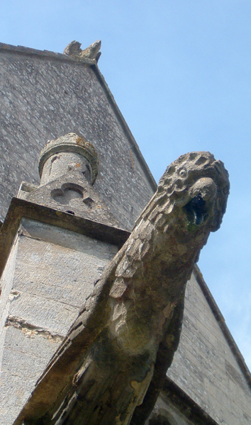 View of gargolye at Woodchester Mansion.